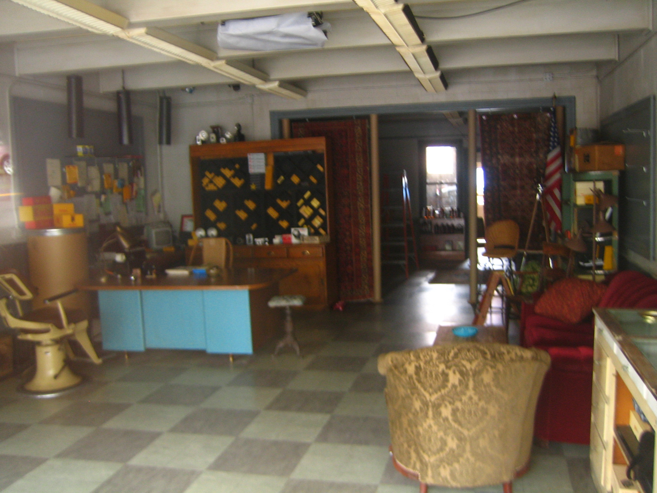 The Castro got a temporary retro makeover for the shooting of the film, "Milk." (Castro Camera interior set)